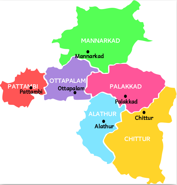 It is a political map of the subdistricts of Palakkad district, Kerala, India